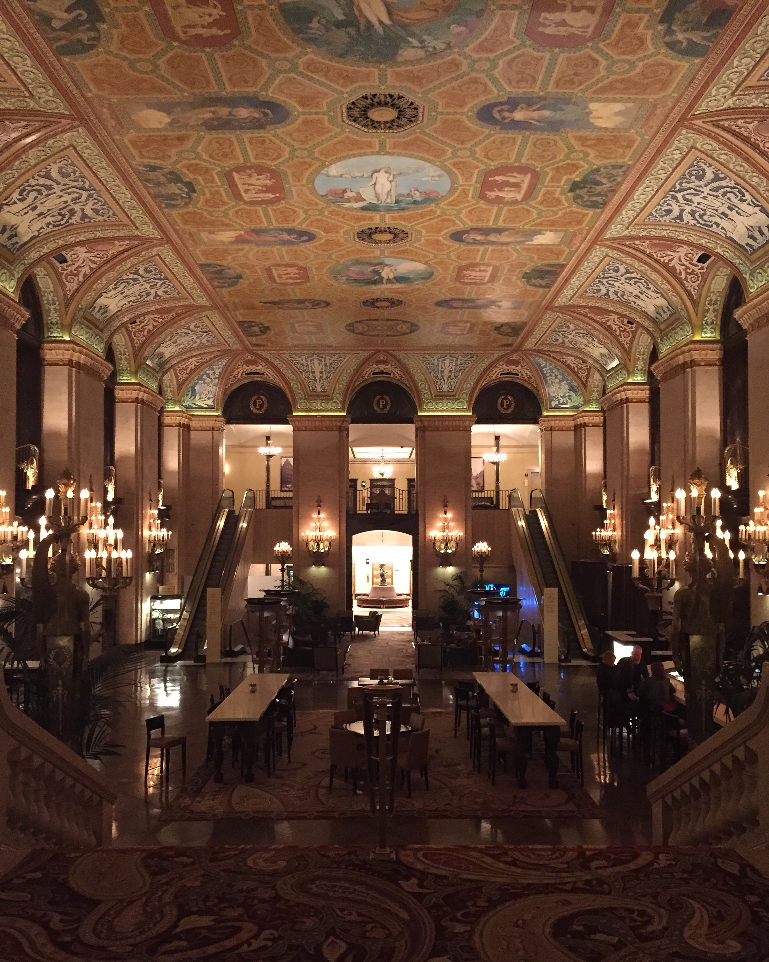 The lobby of the Palmer House Hilton.